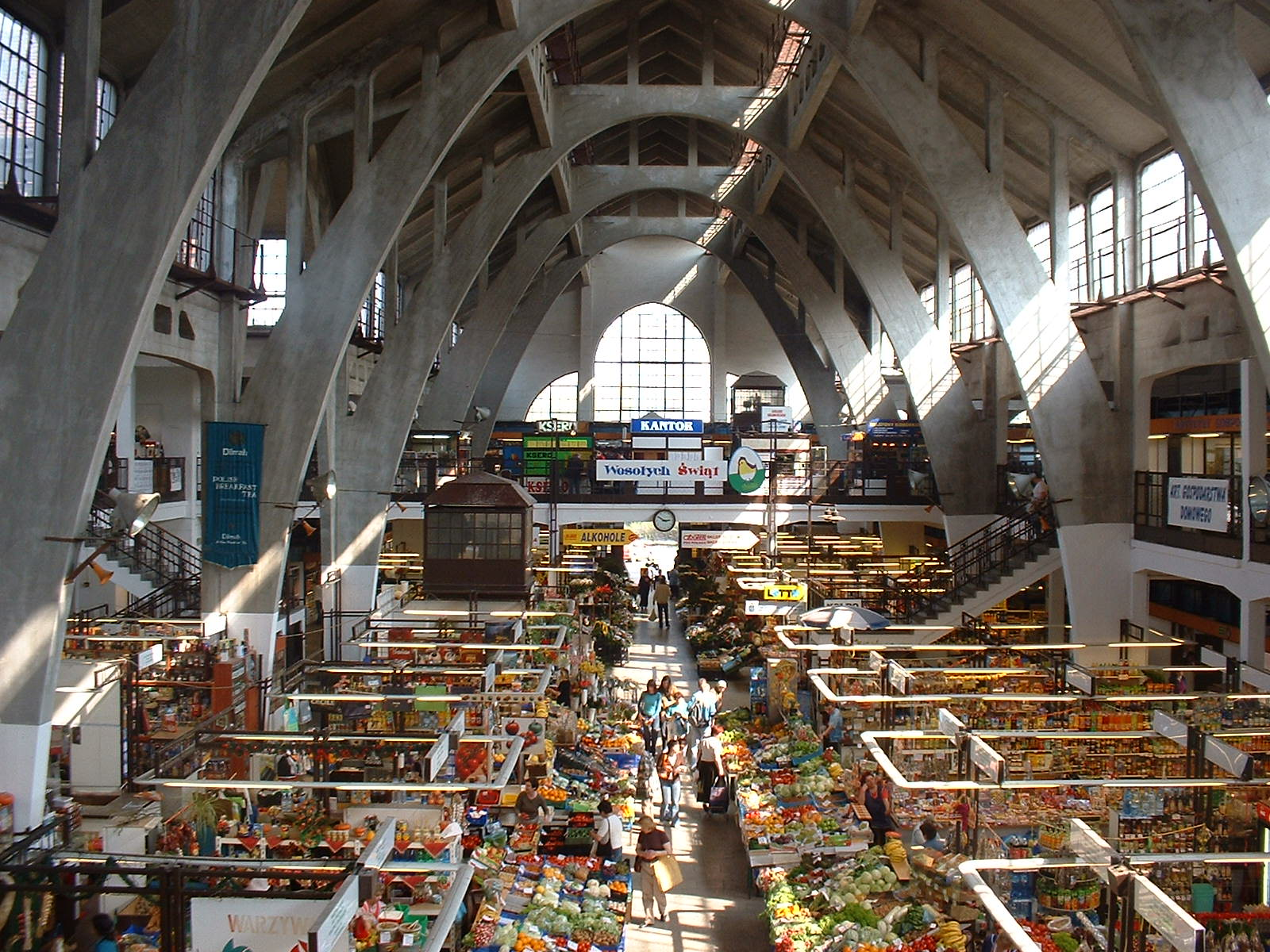 Market Hall in Wrocław, Poland. Built by Richard Plüddemann. Interior as seen from the gallery.